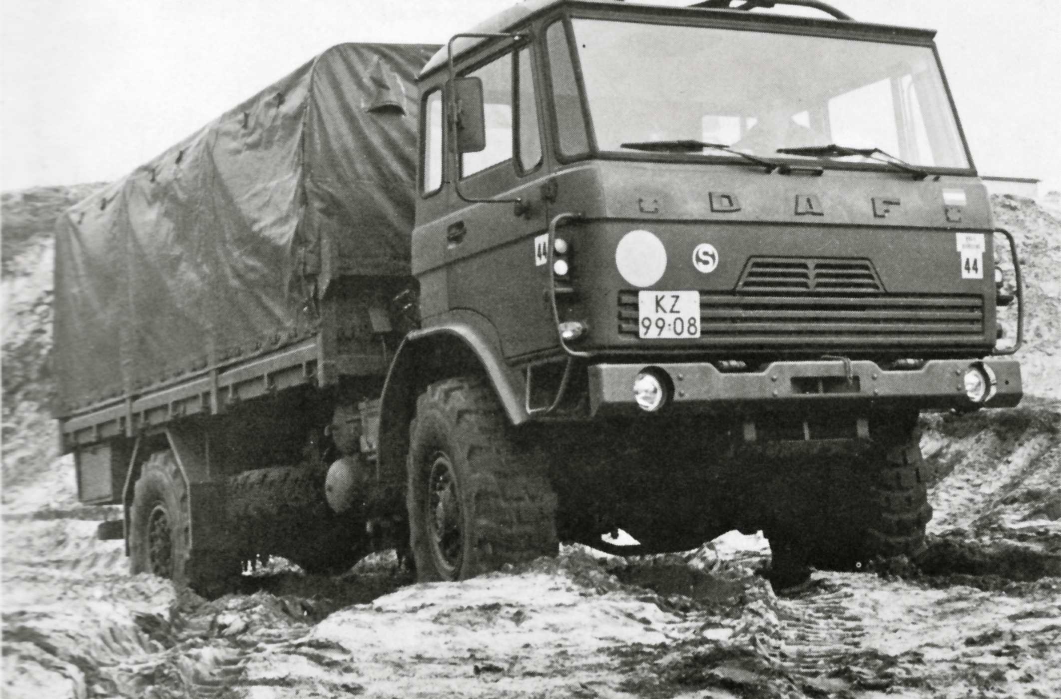 Prototype DAF 4 ton Standard Army truck 1976.